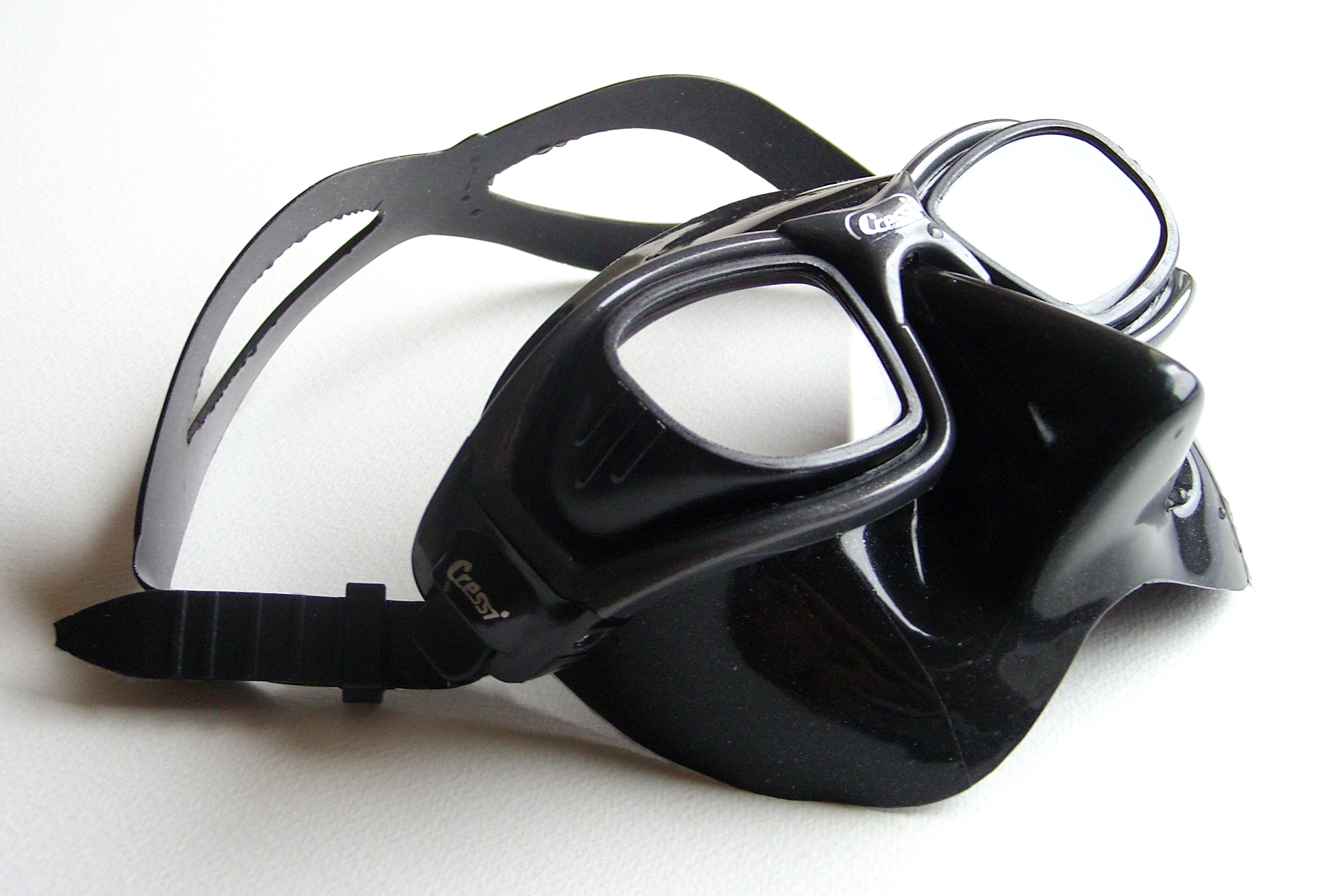 Cressi minima